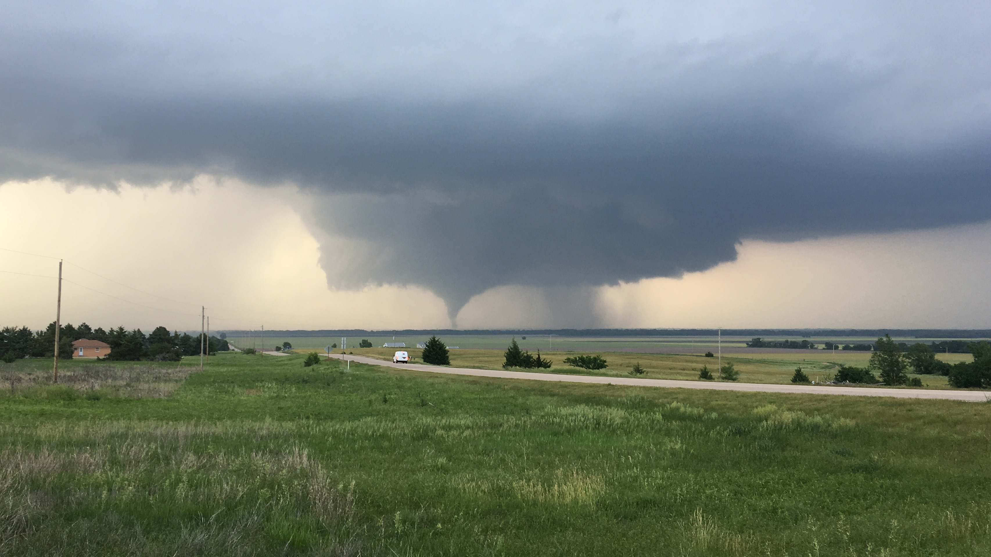 A tornado north of Solomon, Kansas, USA on May 25, 2016. The tornado was a part of the May 22–26, 2016 tornado outbreak sequence.